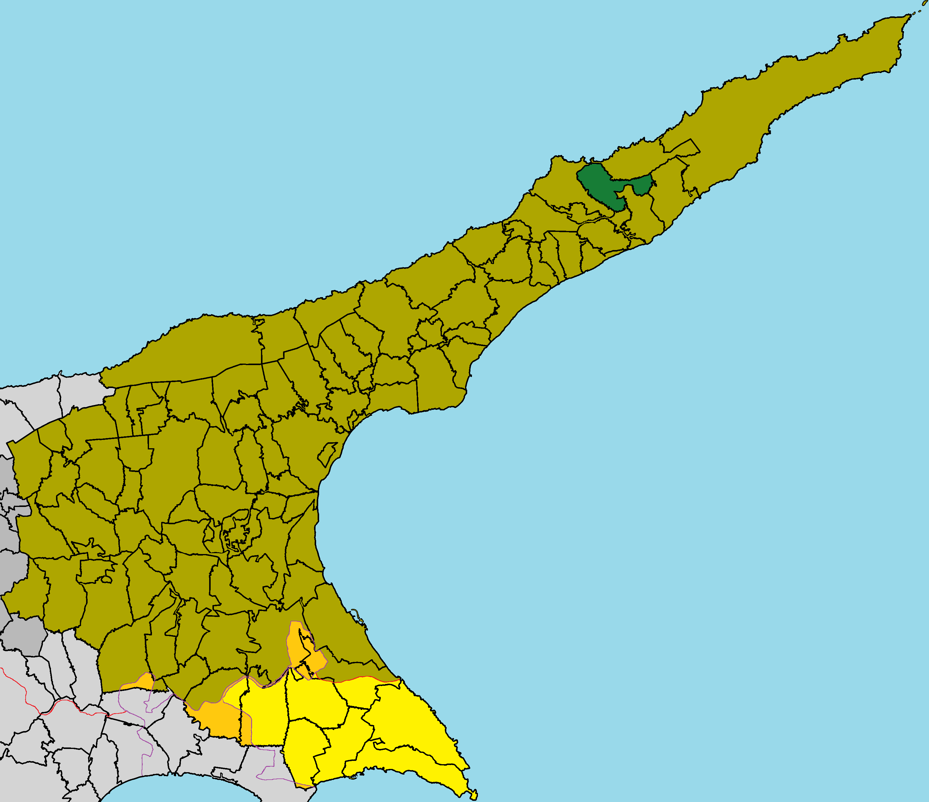 Agia Trias Famagusta in Famagusta District (de jure).